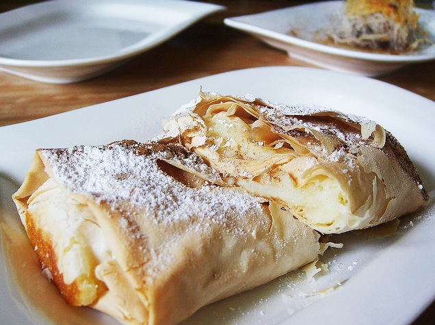 Bougatsa, a typically Thessalonian treat from Thessaloniki, Greece.